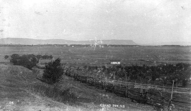 The marsh in Grand-Pré, Nova Scotia.